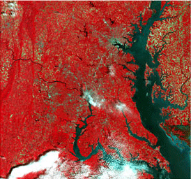 False color satellite image of Chesapeake Bay and the city of Baltimore, Maryland, taken by the Landsat 7 satellite.